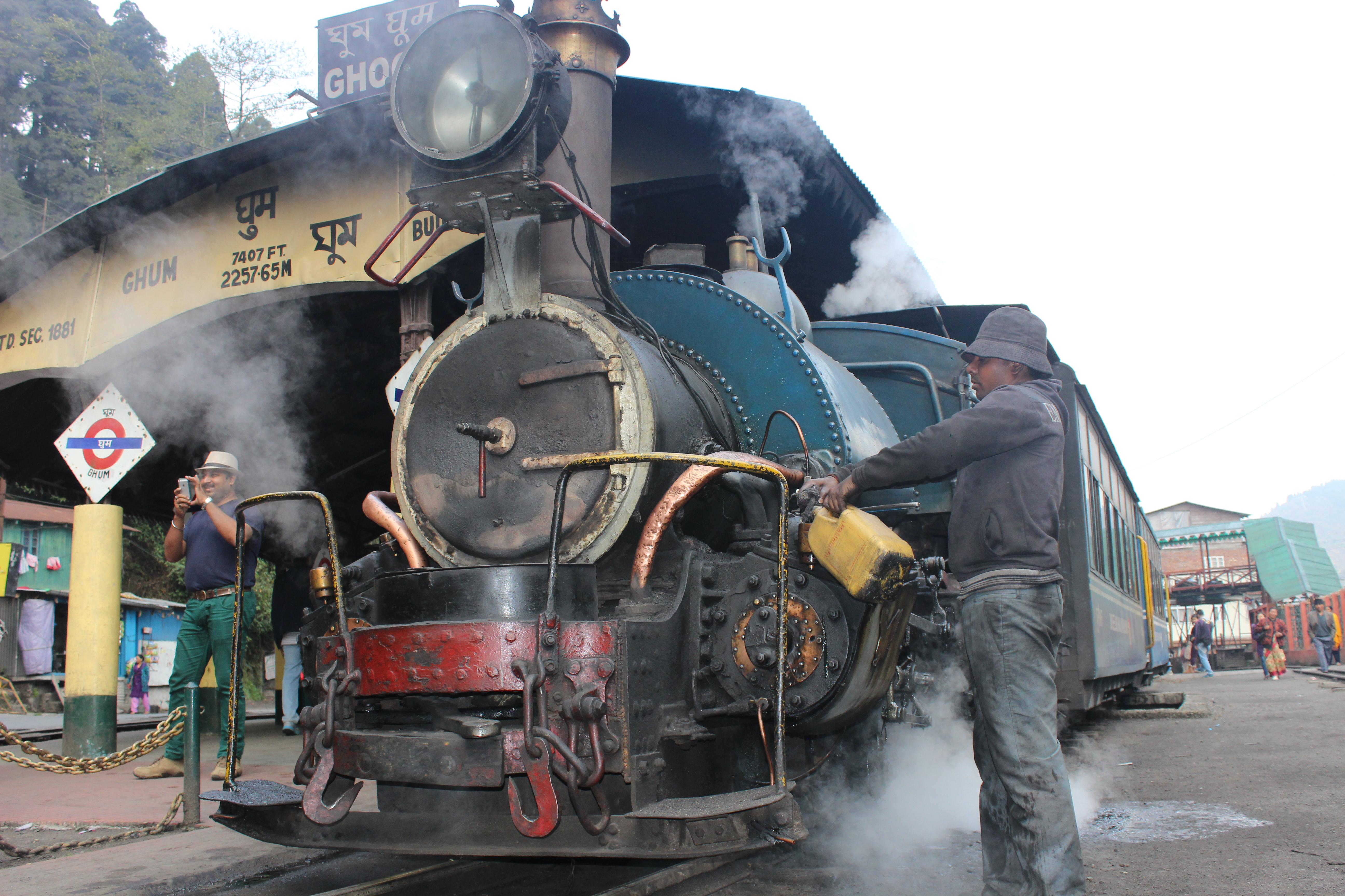 Darjeeling Himalayan Railway 2014